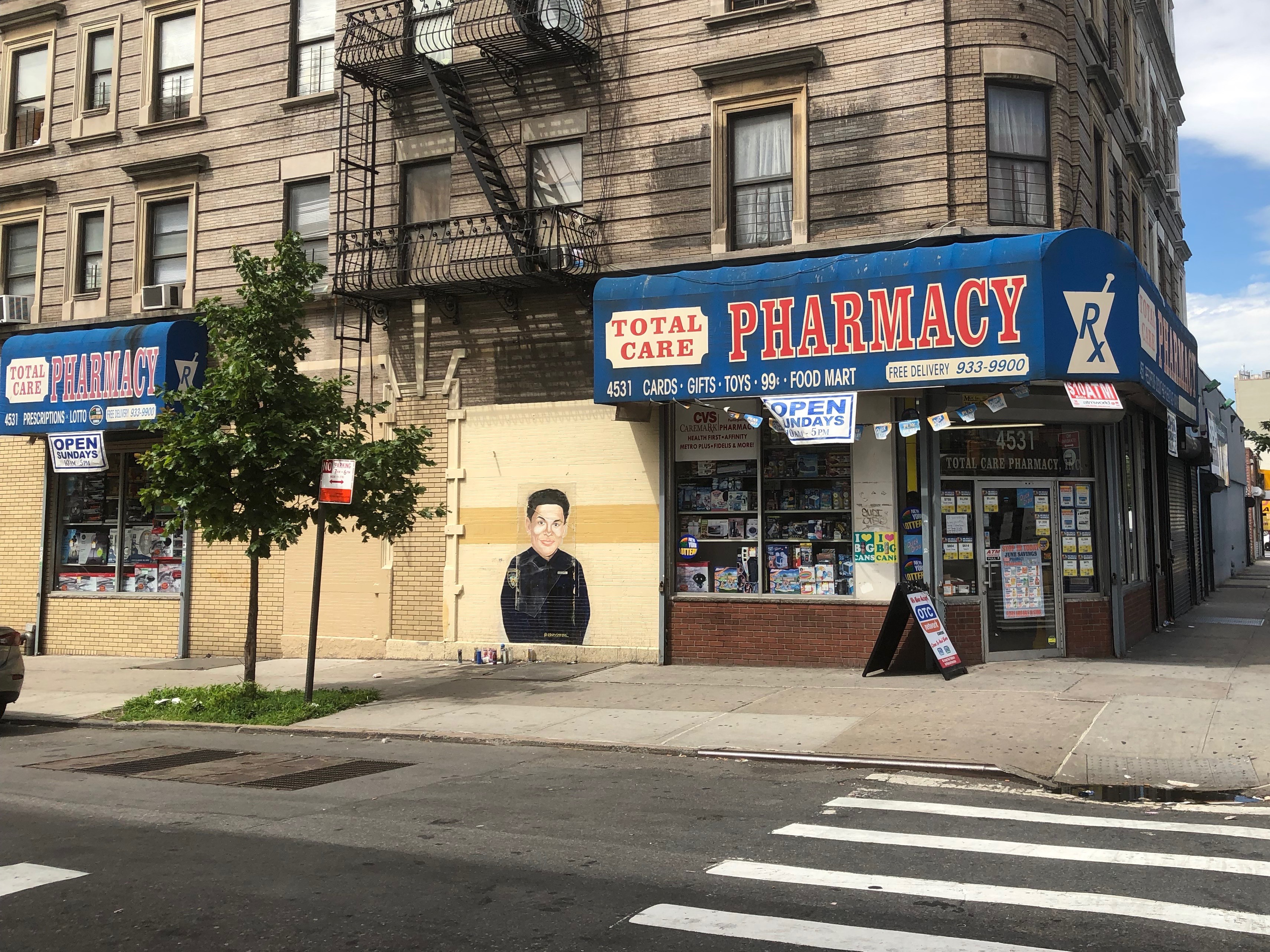 Memorial to Lesandro Guzman-Feliz in Belmont, The Bronx, New York City. At the grocery store at the south-west corner of East 183rd street and Bathgate Avenue, one block away from an entrance to St. Barnabas Hospital.